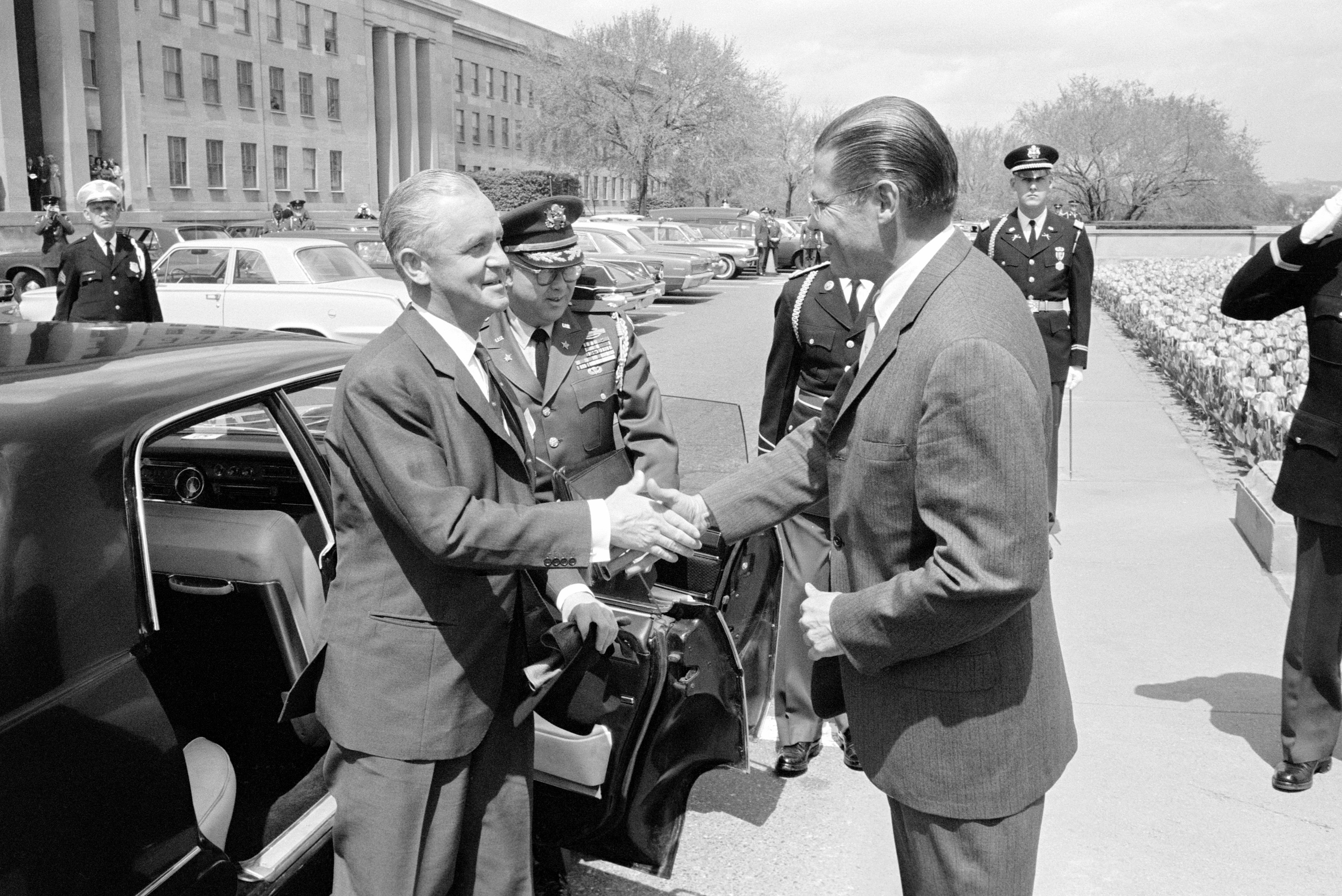 Secretary of Defense Robert S. McNamara, right, welcomes Otto Grieg Tidemand, minister of defense for Norway, to the Pentagon.